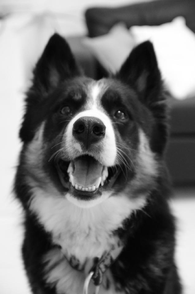 Kébi (Artic Travel Munha) To Not Fancy Kennel - France (E.GALLOU)